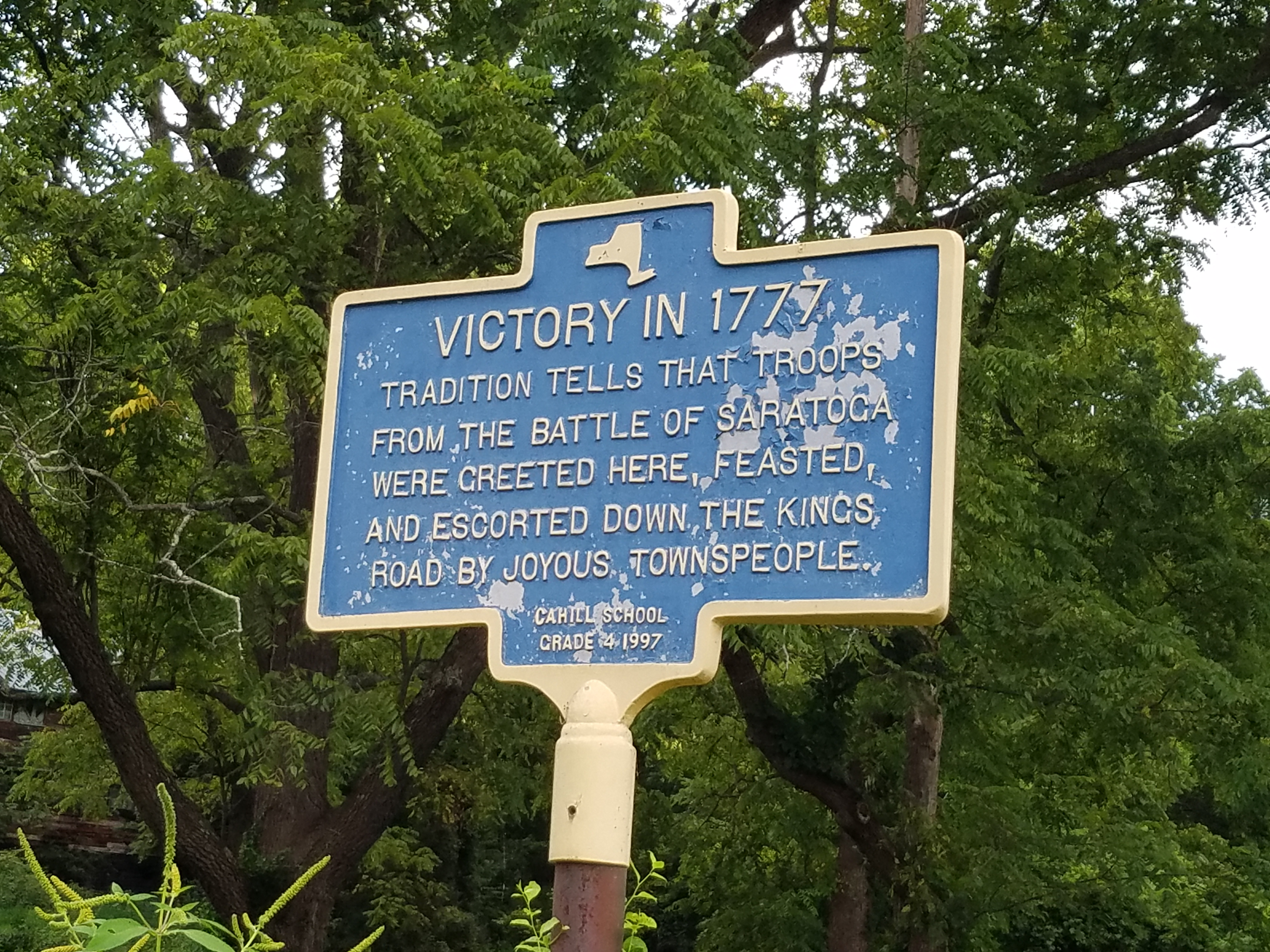 New York State historic marker celebrating the return of victorious American rebels in the American Revolution after theen:Battles of Saratoga.